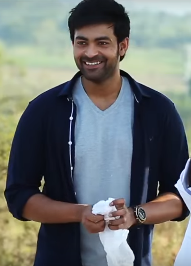 Varun tej from mister